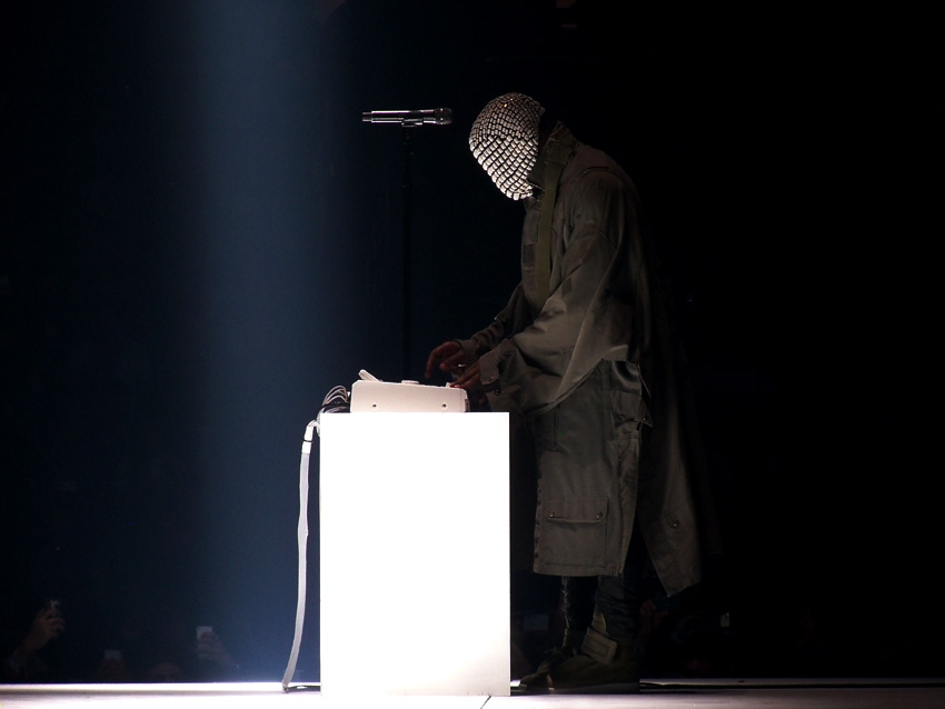 A masked Kanye West performing at Staples Center on October 26, 2013 in Los Angeles on The Yeezus Tour.